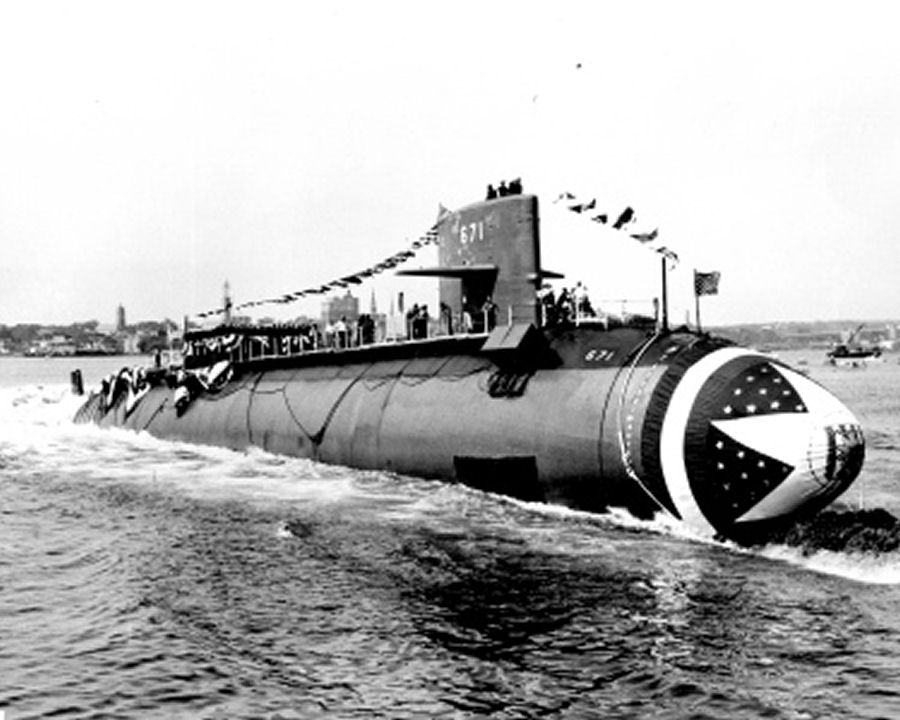 USS Narwhal (SSN-671)